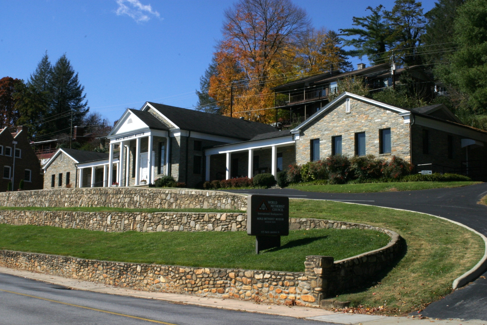 World Methodist Council and museum of Methodism, Lake Junaluska, North Carolina, USA